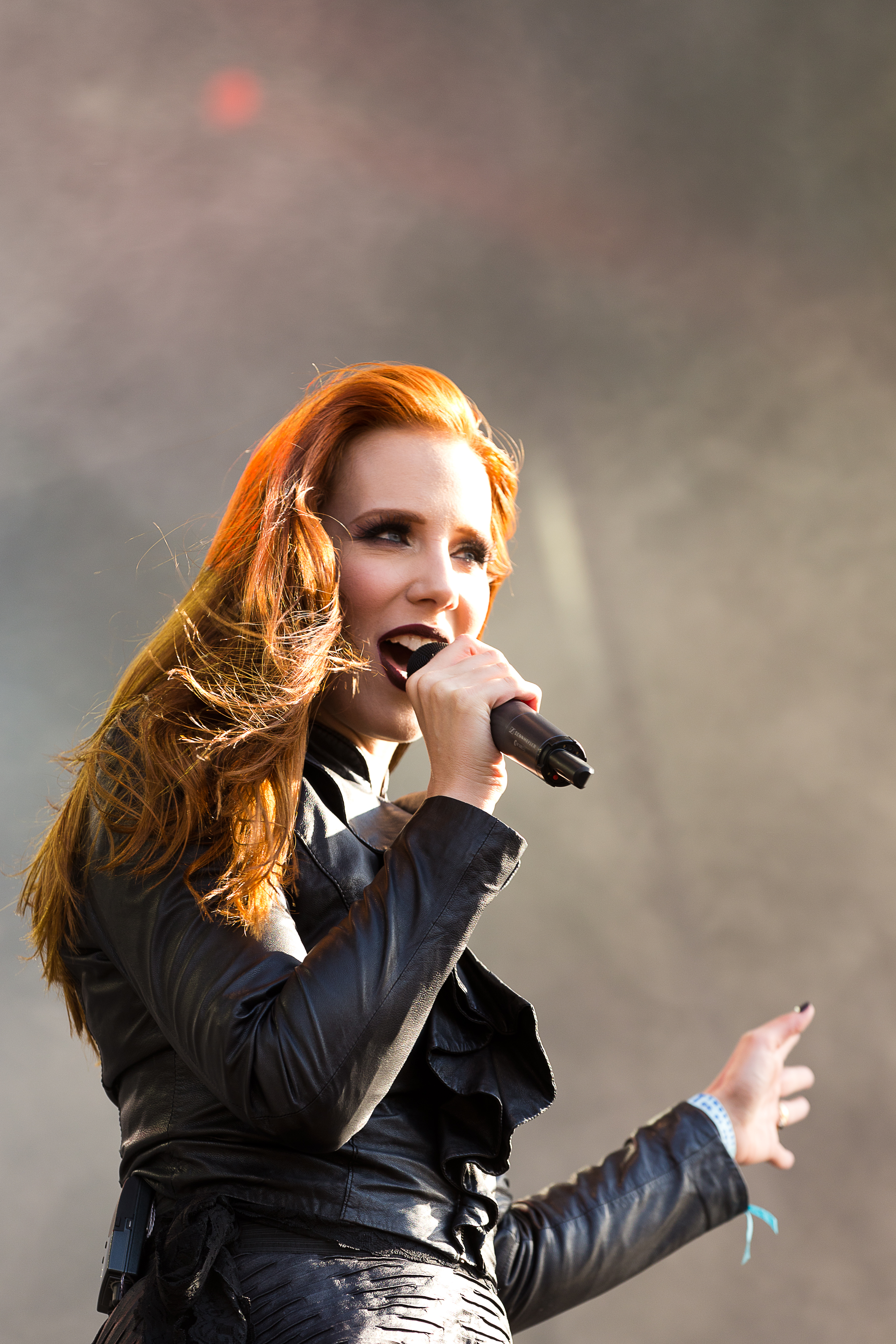 The Dutch symphonic metal band Epica at the Rockharz Open Air 2015 in Ballenstedt/Germany.